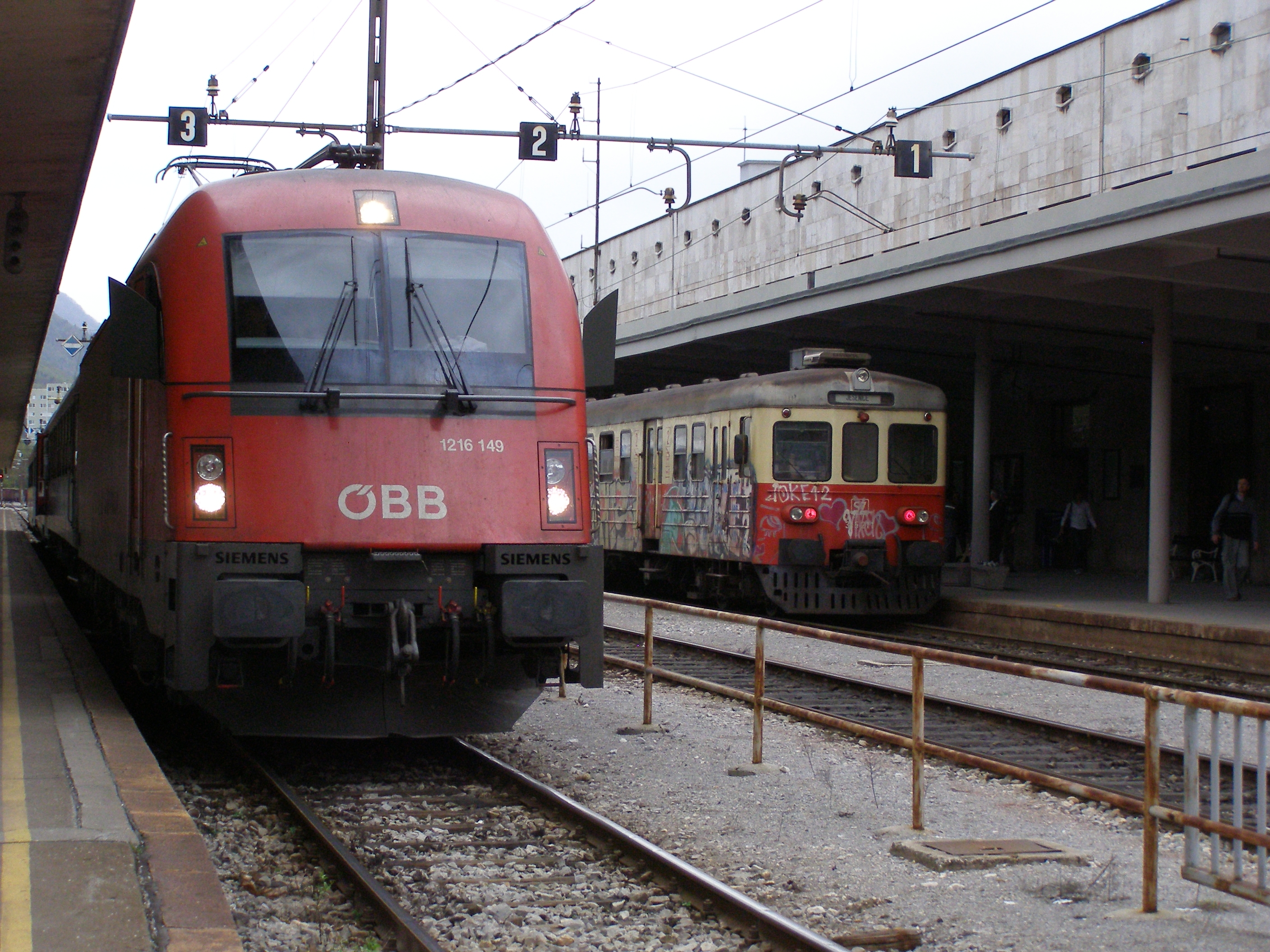 ÖBB Siemens ES64U4 Taurus 1216-149 locomotive and SŽ 315-211 EMU at Jesenice station